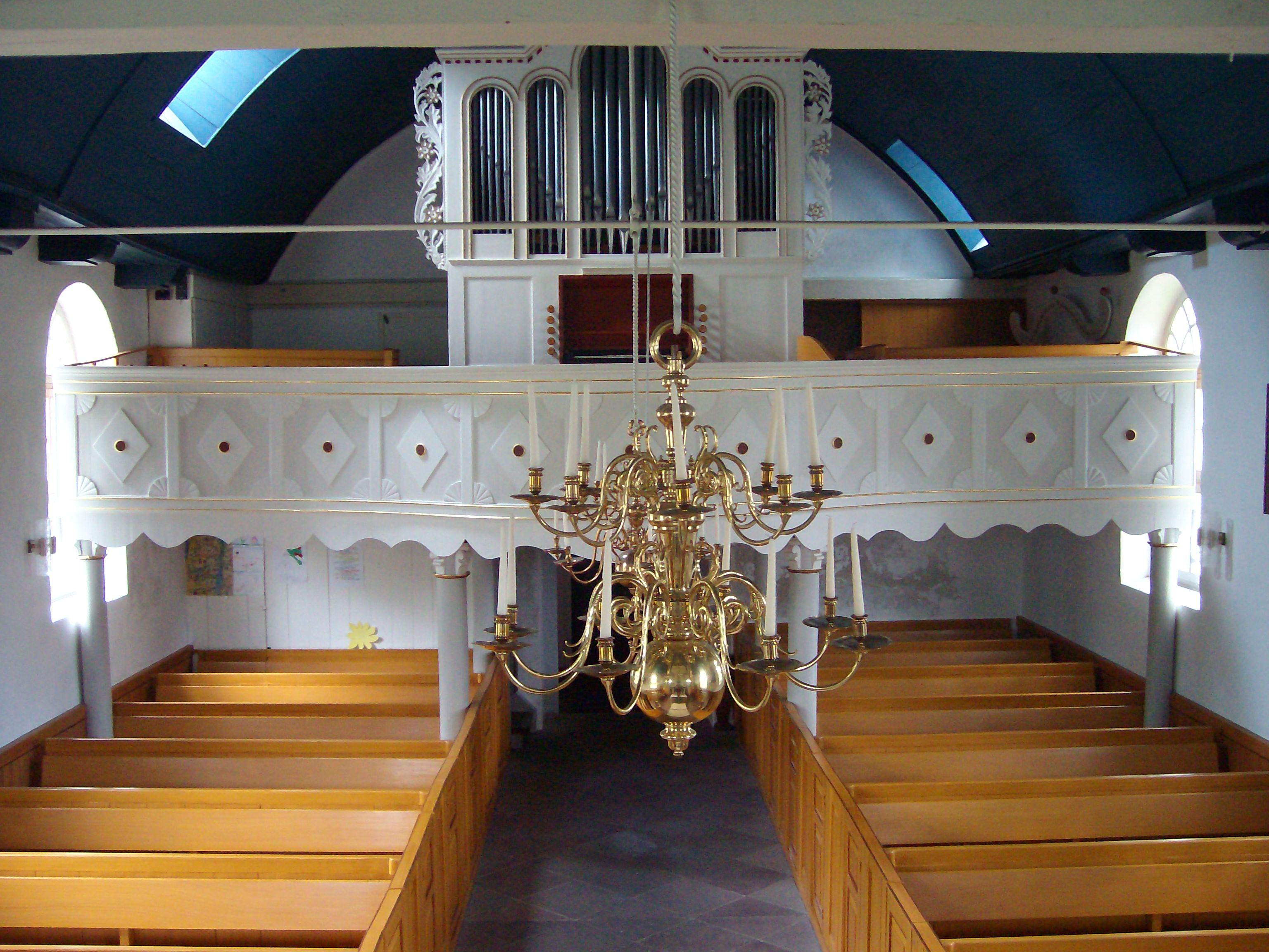 Historic church in Breinermoor, district of Leer, East Frisia, Germany